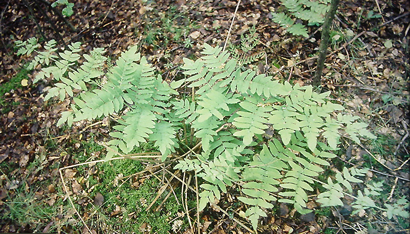 "Old" photo old. (1991) : Osmonda regalis Location: Western Part of the “Plateau d’Helfaut”, on the border of the current Nature Reserve Landes of Helfaut (one of the old "voluntary" nature reserves, "since become regional nature reserves") in the Region Nord/Pas-de-Calais and one of four of these reserves established in compensatory measuring against the ecological fragmentation effect of the new big road cutting the plateau Helfaut (Natura 2000, Arrêté prefectoral de Biotope).